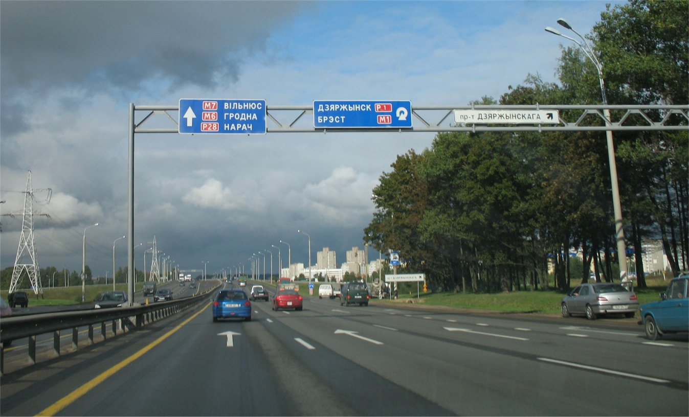 View from the highway M9, making a ring around Minsk, in Belarus.